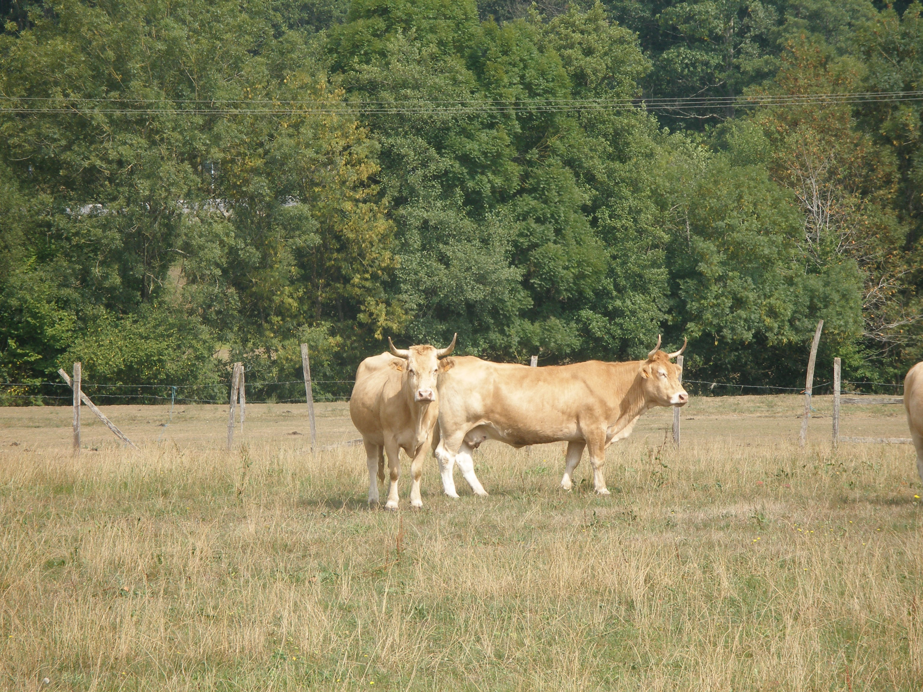 cow race of Pirineo